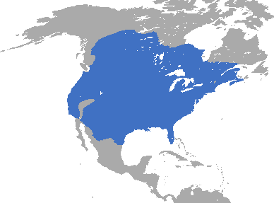 Striped Skunk (Mephitis mephitis) range map